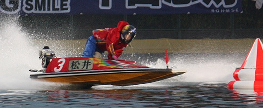 Boat Race